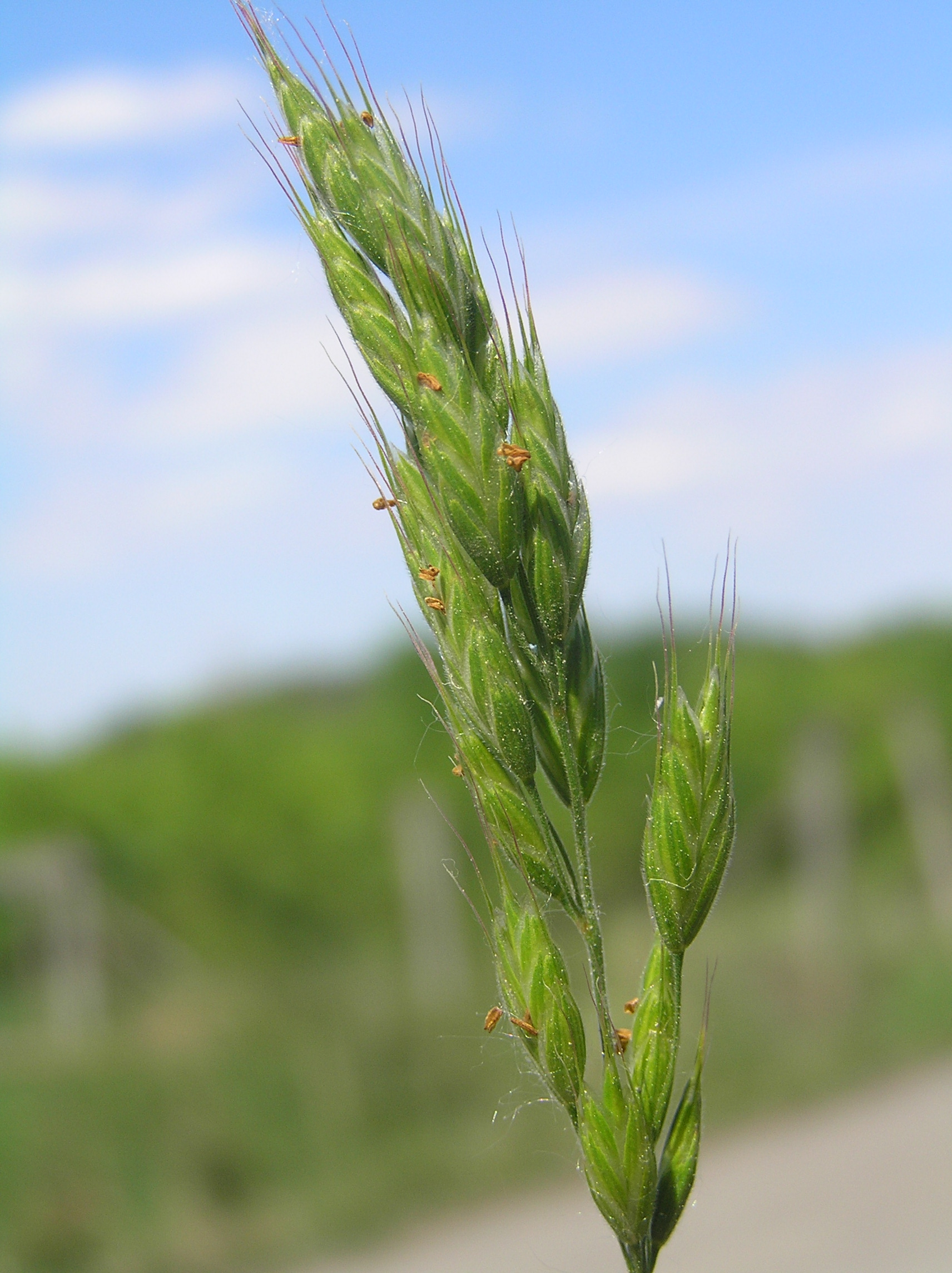 Bromus hordaceus, Lanžhot, Southern Moravia, Czech Republic